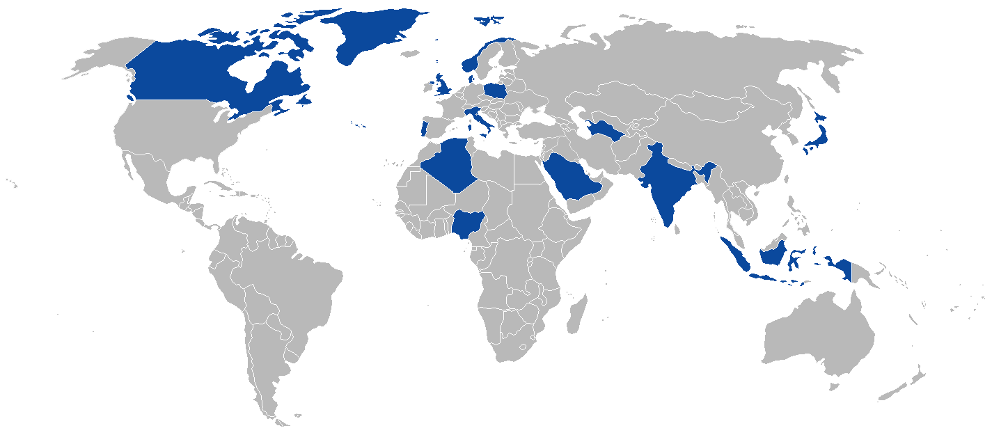 Operators of the AW101 helicopter